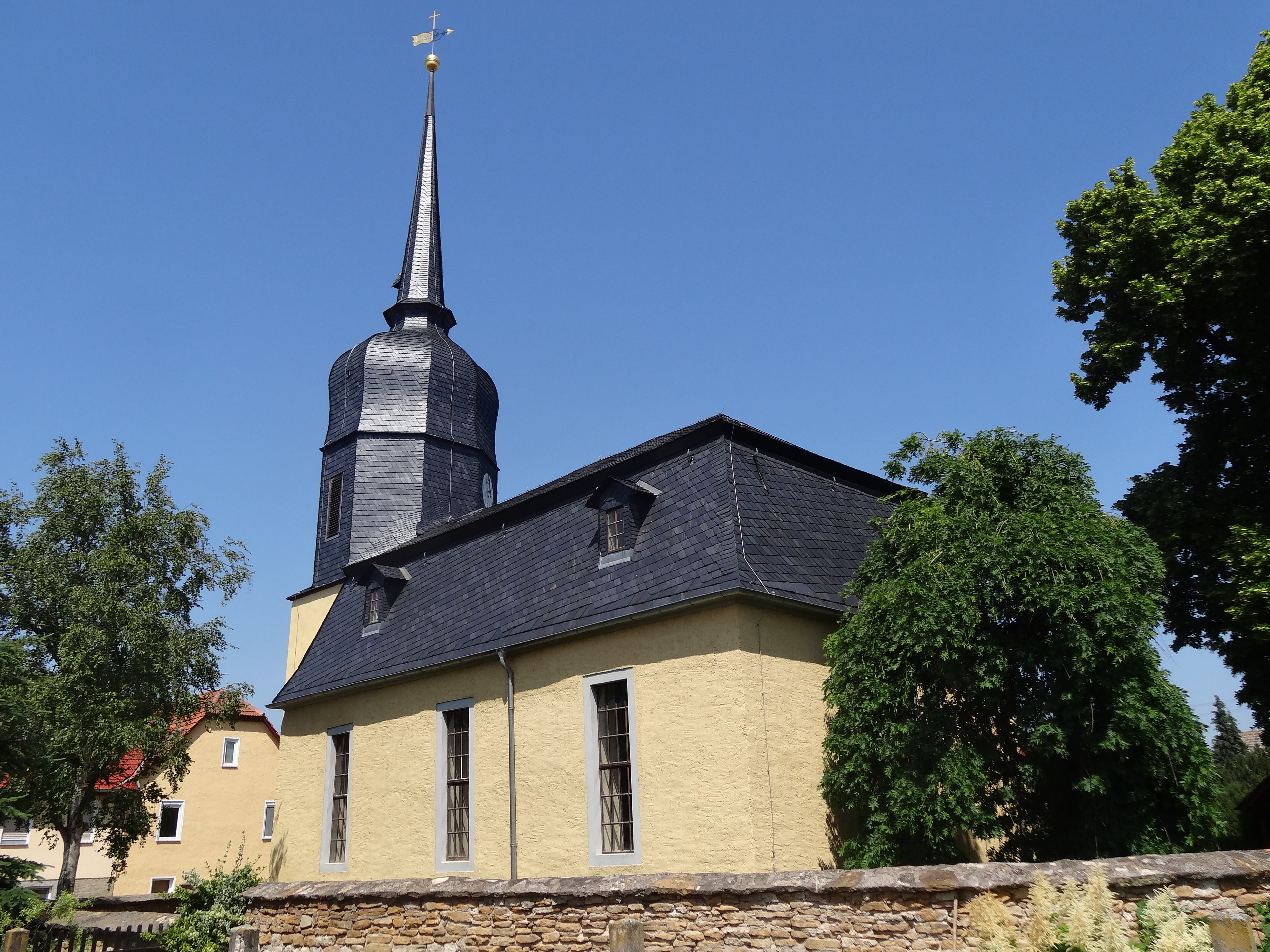 Church of Rohrbach, Landkreis Weimarer Land, Thuringia, Germany